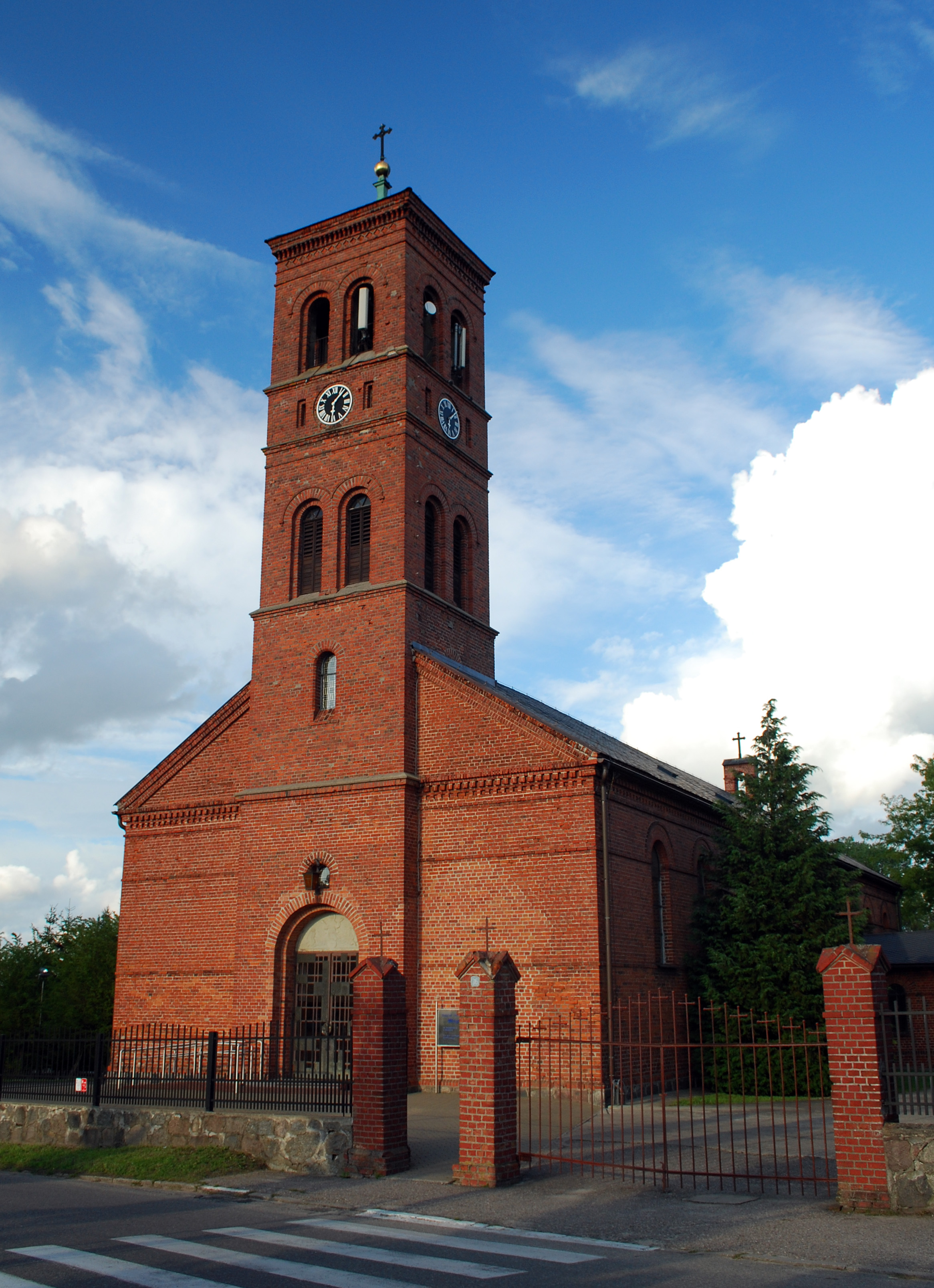 Parish Church in Chmielno, Poland.